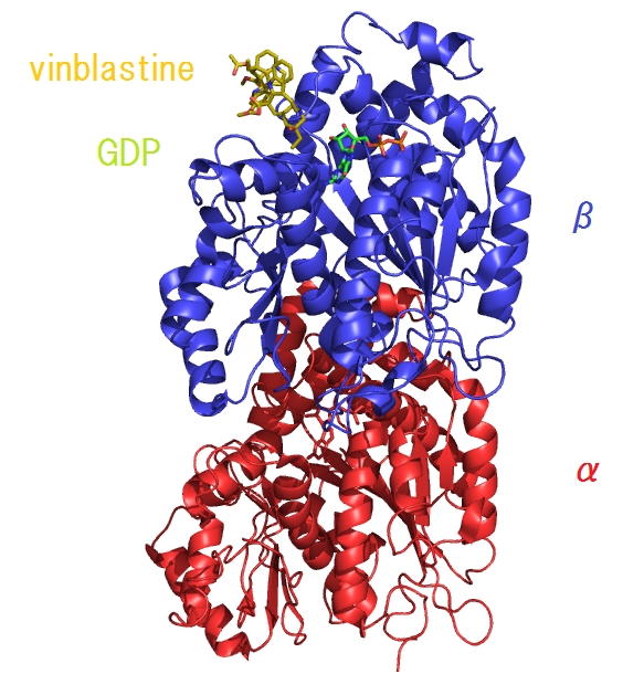 The complex of α-tubulin subunit(red), β-tubulin subunit(blue) and vinblastine(yellow). This file is created from PDB file id= 1Z2B